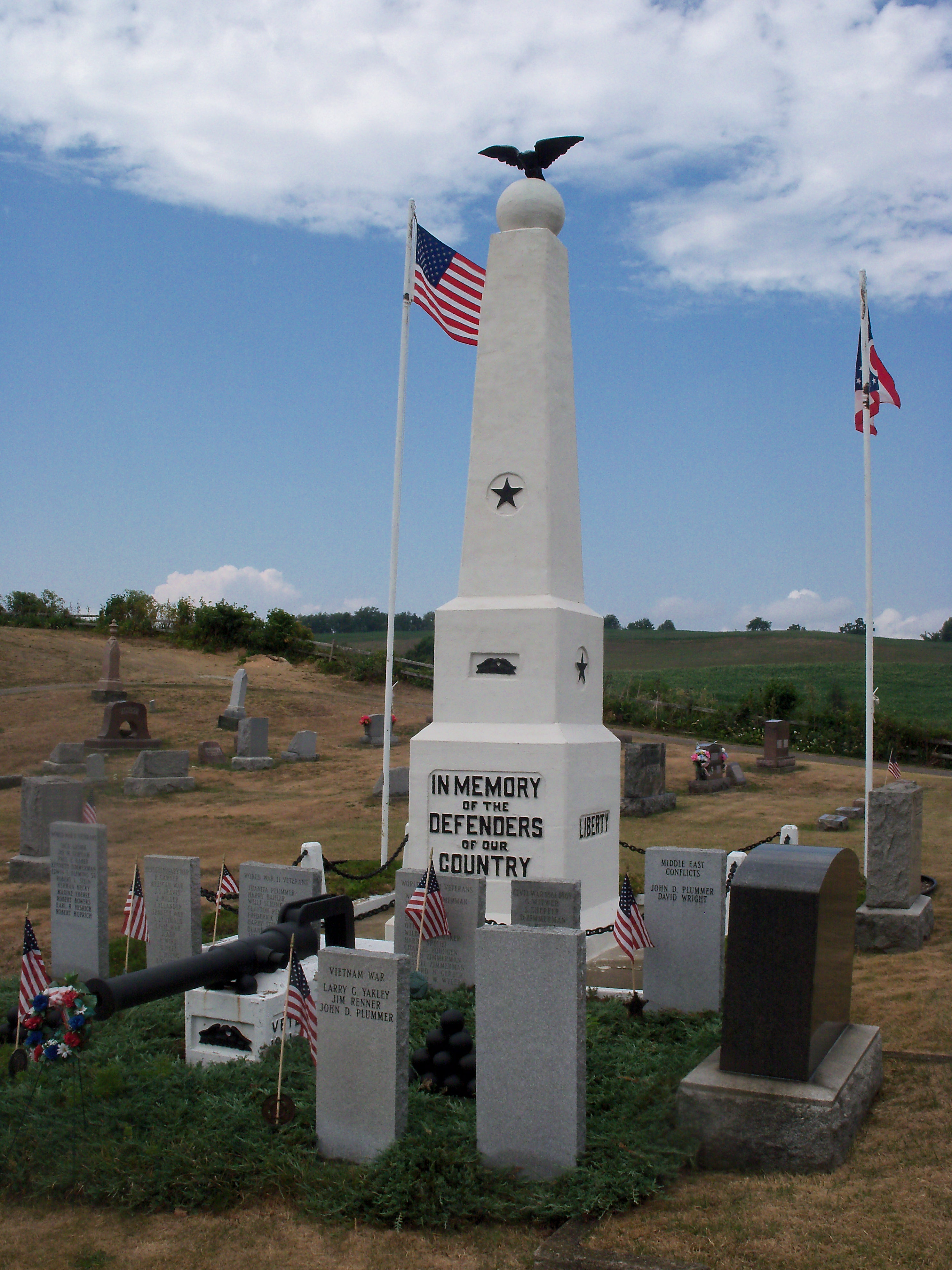 Soldier's and Sailor's Monument atop the Ragersville, Ohio Cemetery. It was dedicated in 1905, designed by Civil War Veteran Dr. Herman J. Peters (1842-1932).